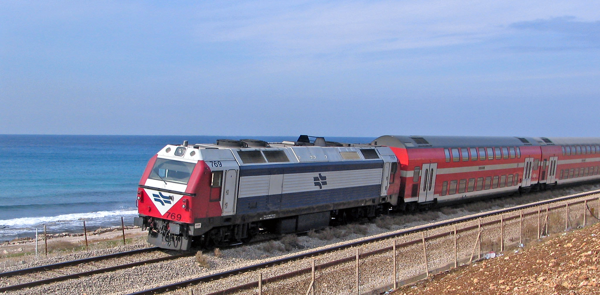 Diesel locomotive JT42BW-769 with double deck coaches "Bombardier" (Germany), Haifa, Israel